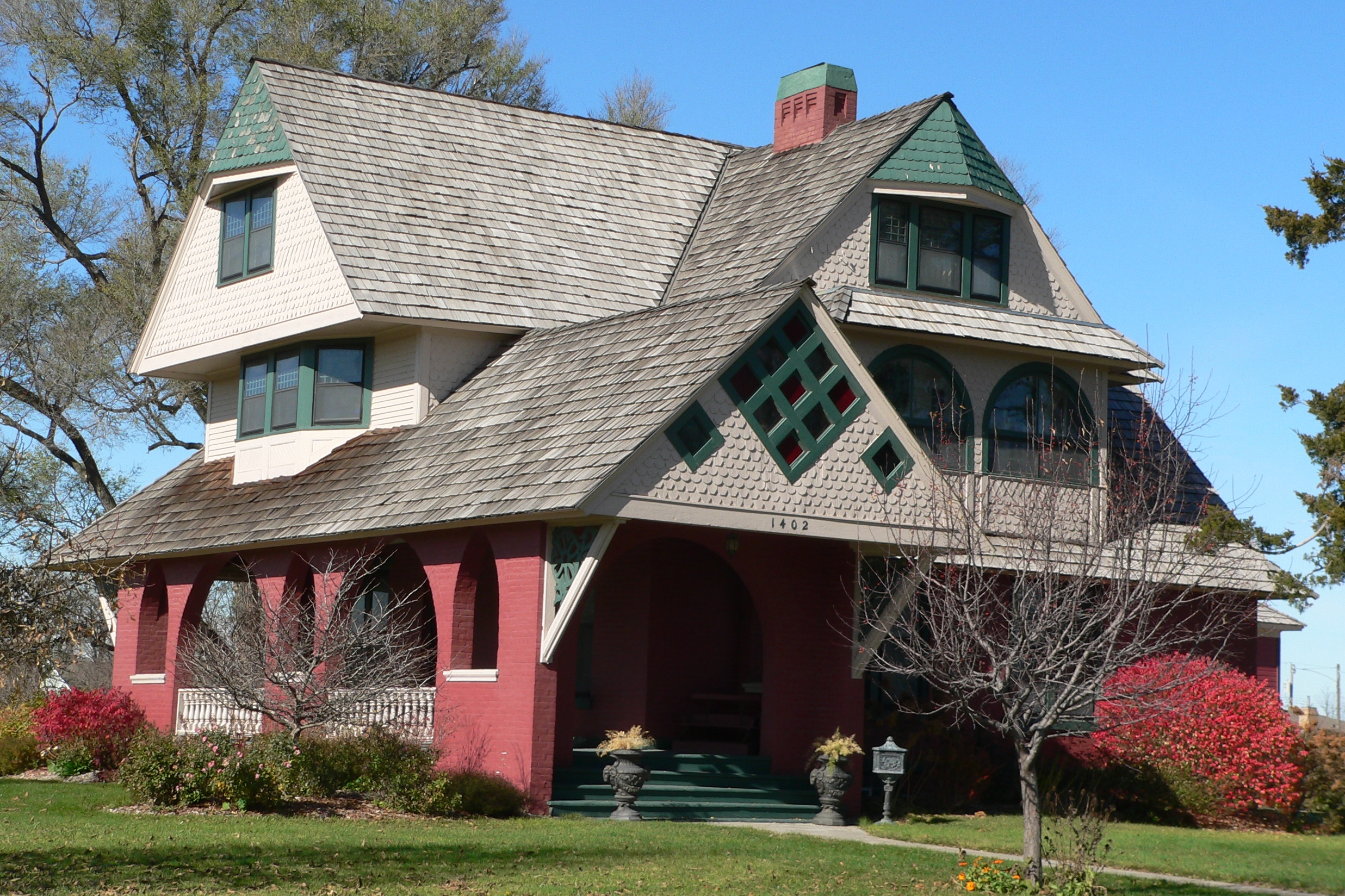 John J. and Lenora Bartlett House at 1402 9th Ave. in Kearney, Nebraska, seen from the southeast. The Queen Anne house was designed by architects John Scott and V. V. Yost, and was built in 1888. The house is listed in the National Register of Historic Places.